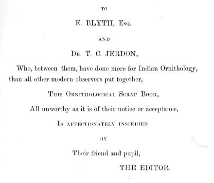 Dedication page of My scrap book: rough notes on Indian ornithology